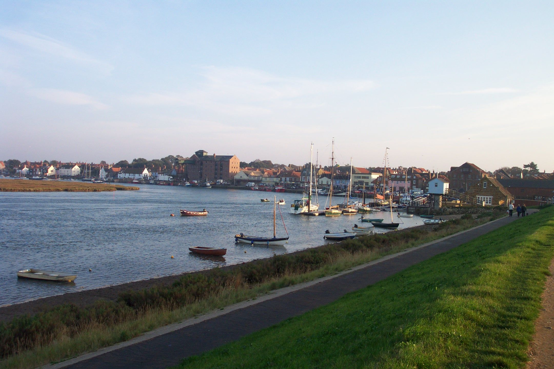 The quay at Wells-next-the-sea, viewed from the embankment. For more information see the Wikipedia article Wells-next-the-Sea.